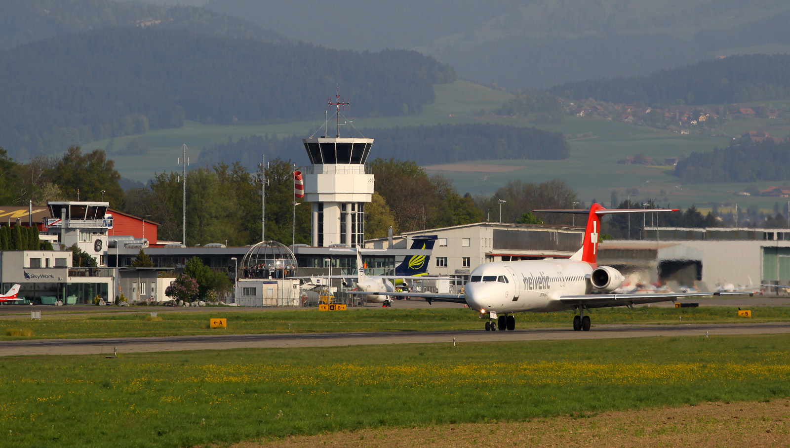 [Helvetic Airlines] Fokker 100 in front of Bern Airport